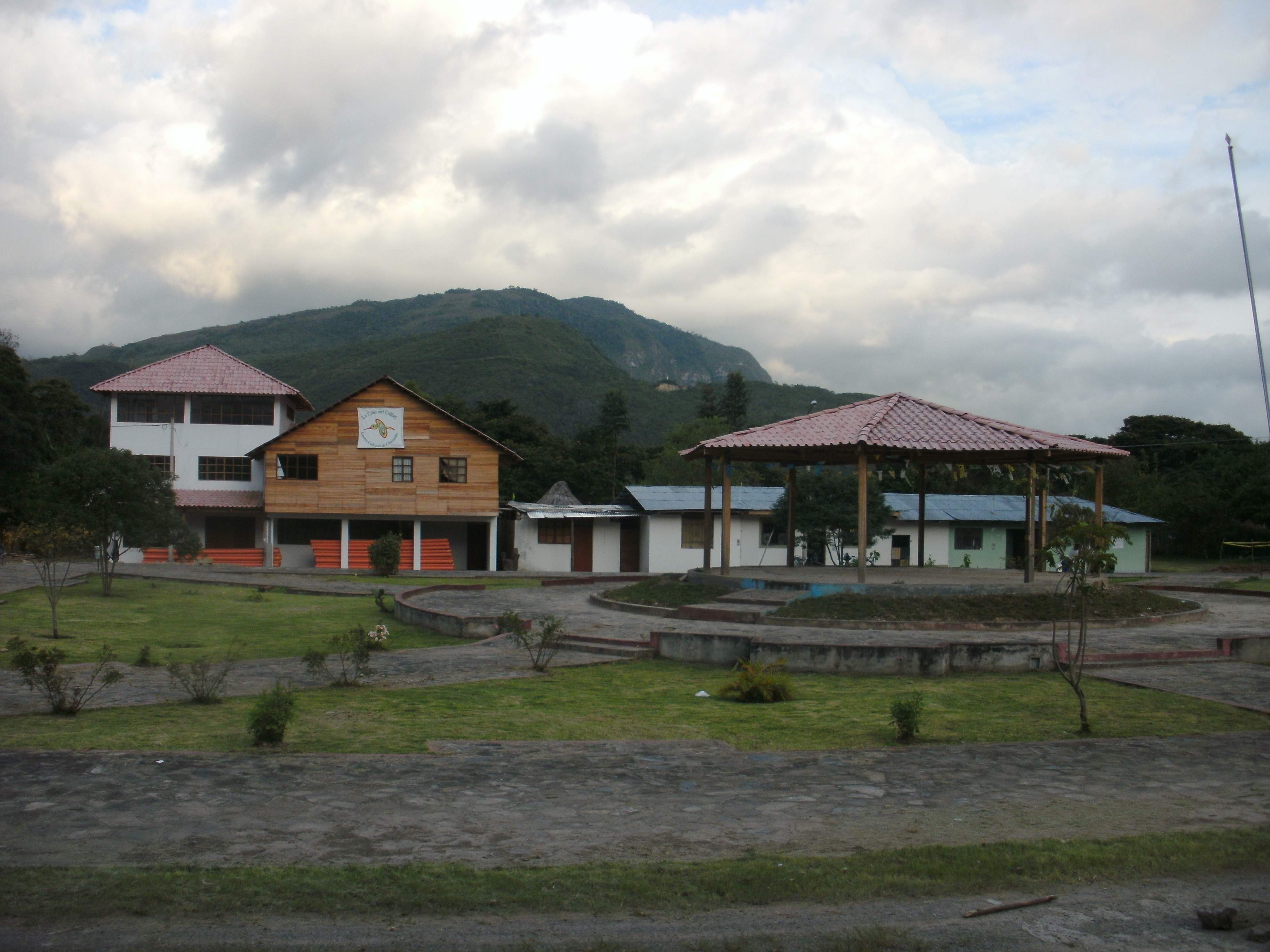 Саха тыла: The Colibri foundation and the center of Chirimoto